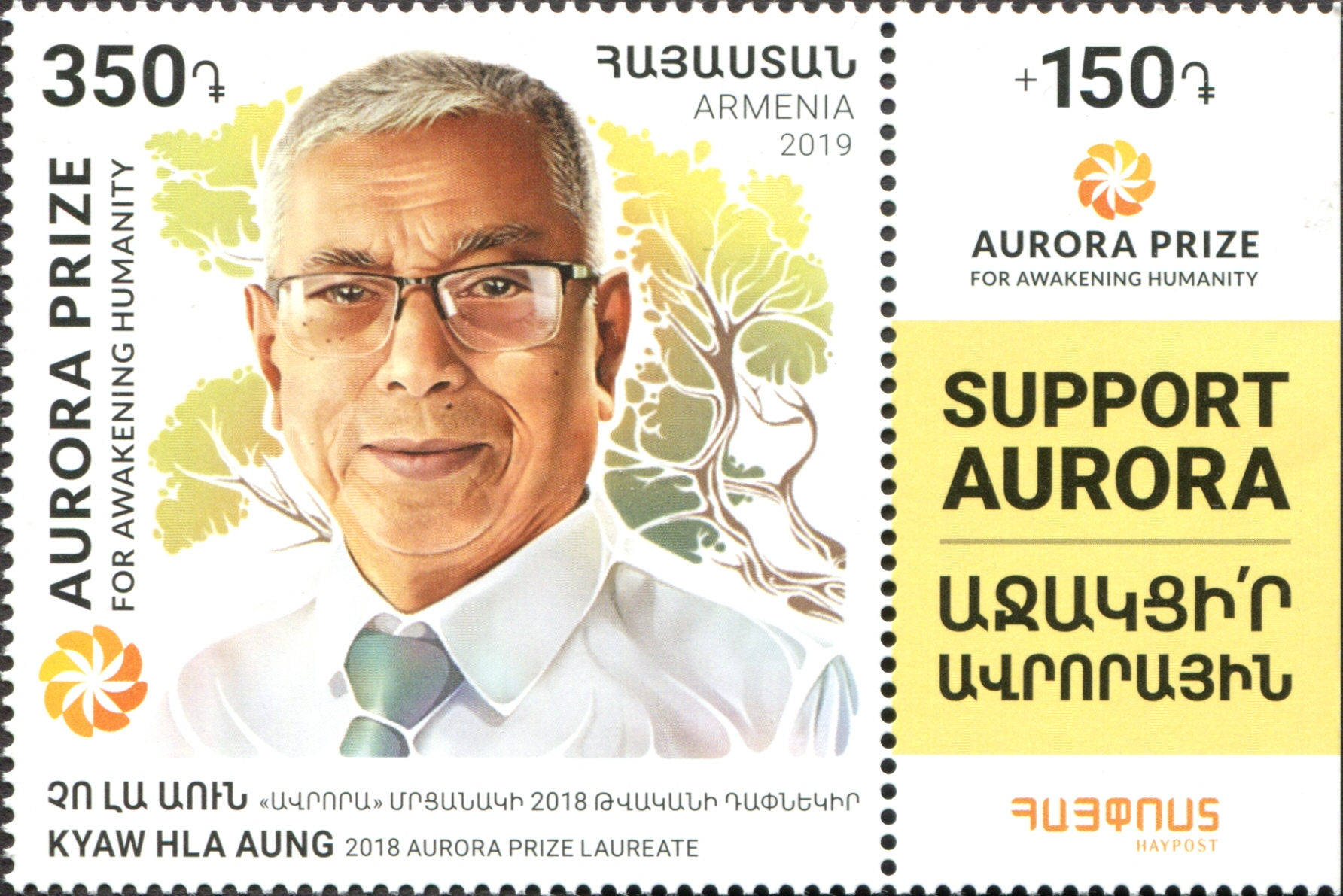 “Aurora" humanitarian initiative. Laureates of “Aurora” prize. Kyaw Hla Aung In 2019 on October 16th, a postage stamp dedicated to the theme ““Aurora" humanitarian initiative. Laureates of “Aurora” prize. Kyaw Hla Aung” is put into circulation. Date of issue: October 16, 2019 Designer: Alla Mingalyova Printing house: Cartor, France Size: 50,0 x 50,0 mm Stamps per sheet: 6 pcs Print run: 12 000 pcs